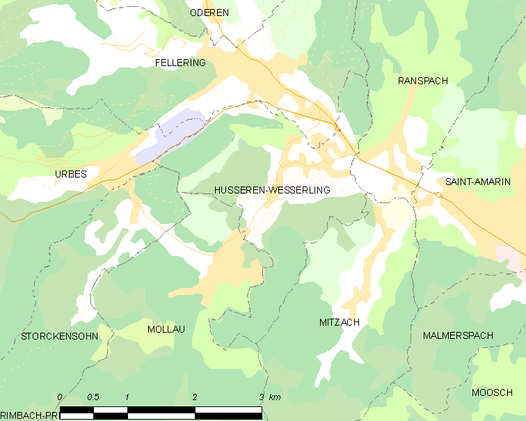 Map of French municipality